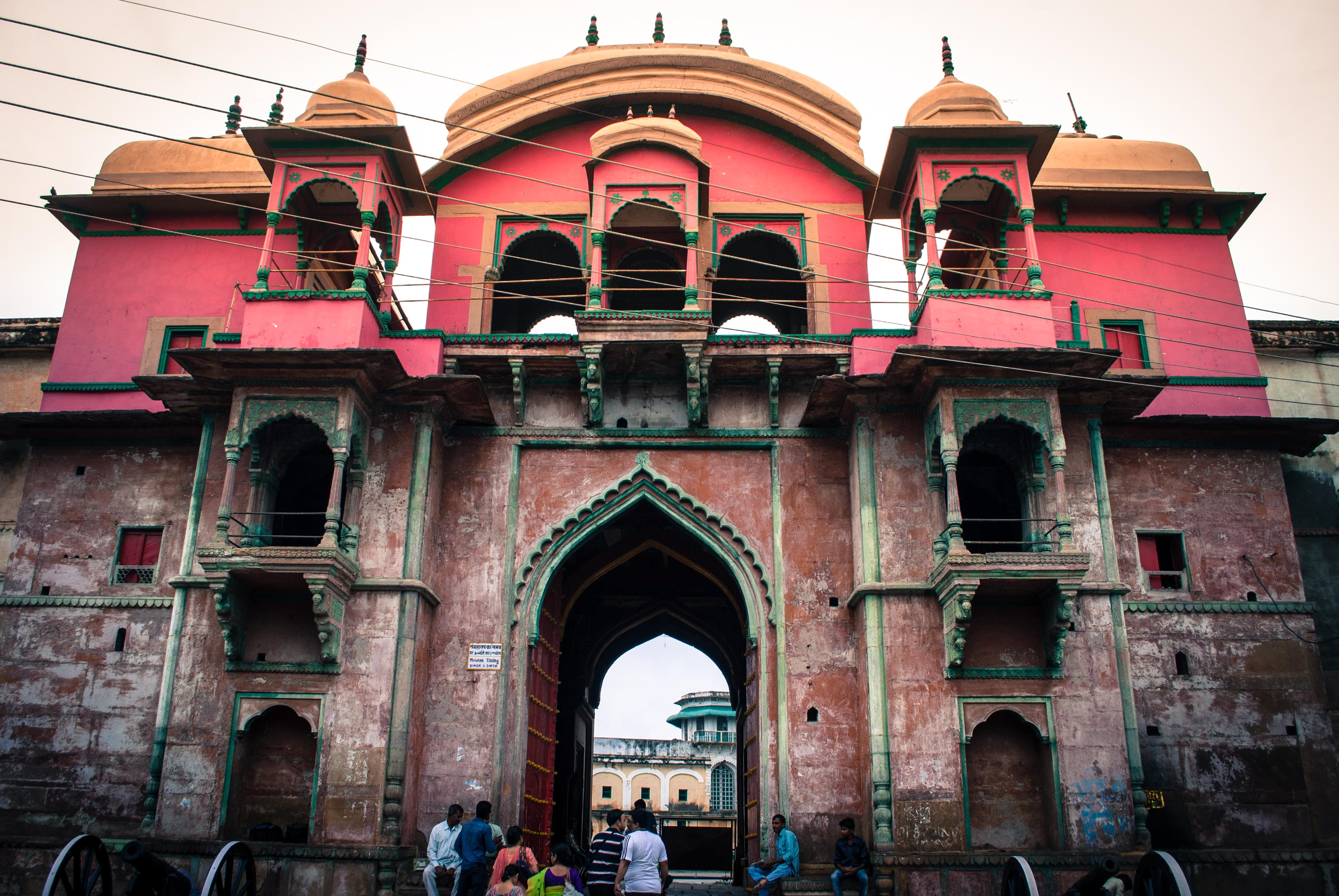 This picture was taken in Varanasi-2013